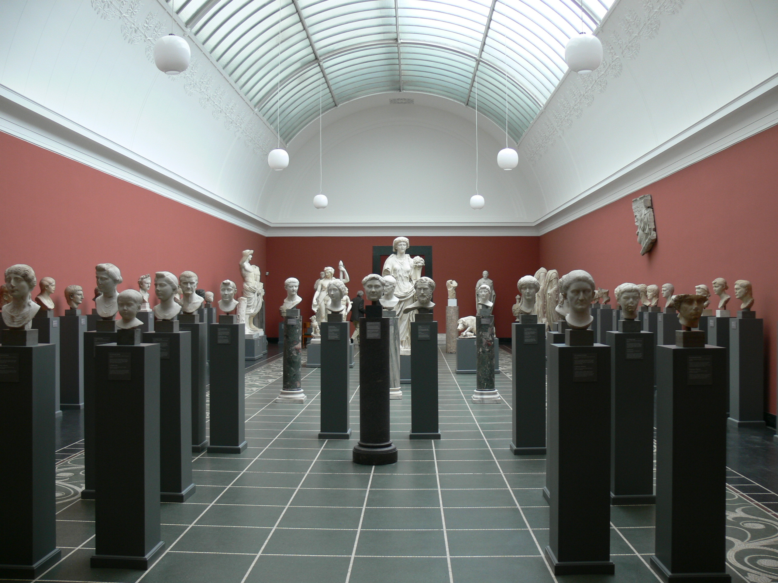 Ny Carlsberg Glyptothek, Copenhagen. Exhibition of ancient busts.